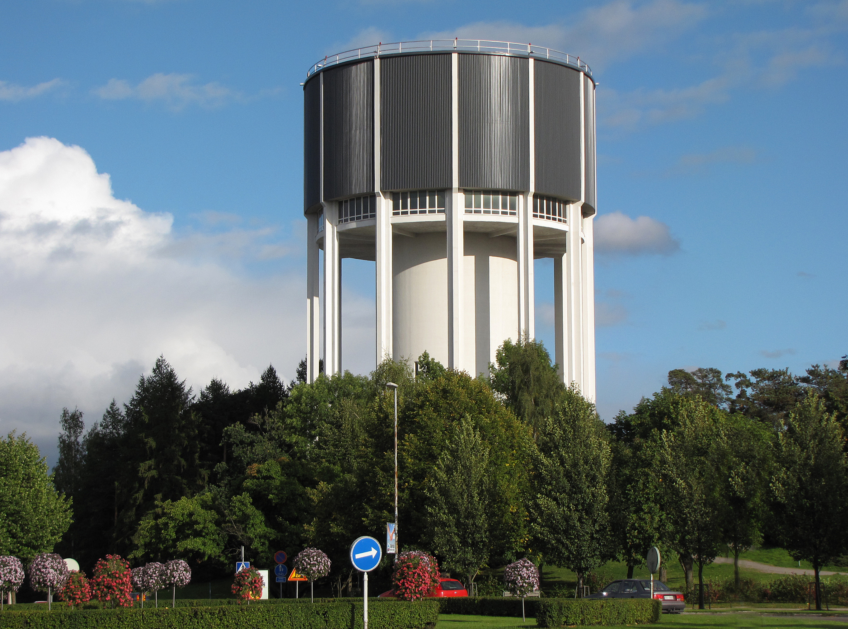 Water tower in Lappeenranta, Finland.